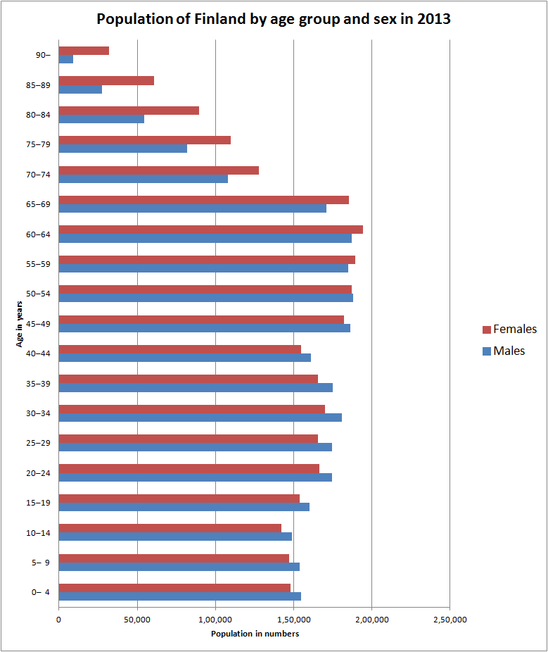 Population pyramid Finland 2013